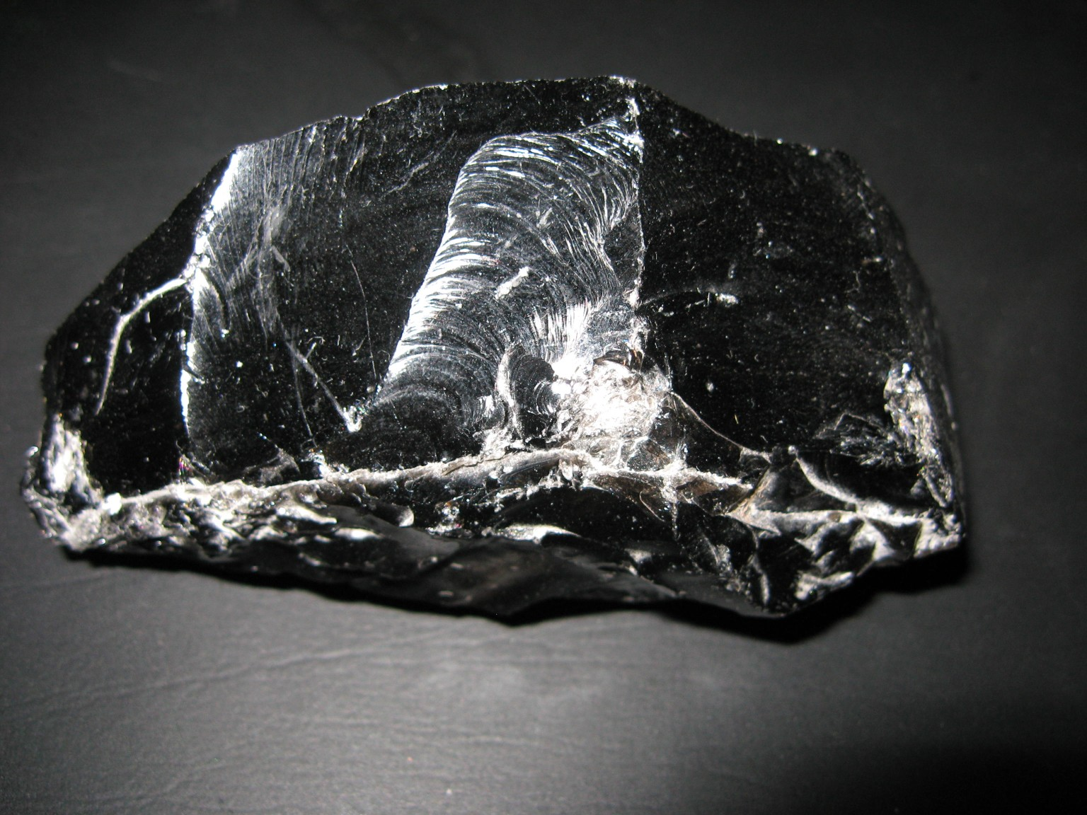 Obsidian from Mount Vesuvius, Italy